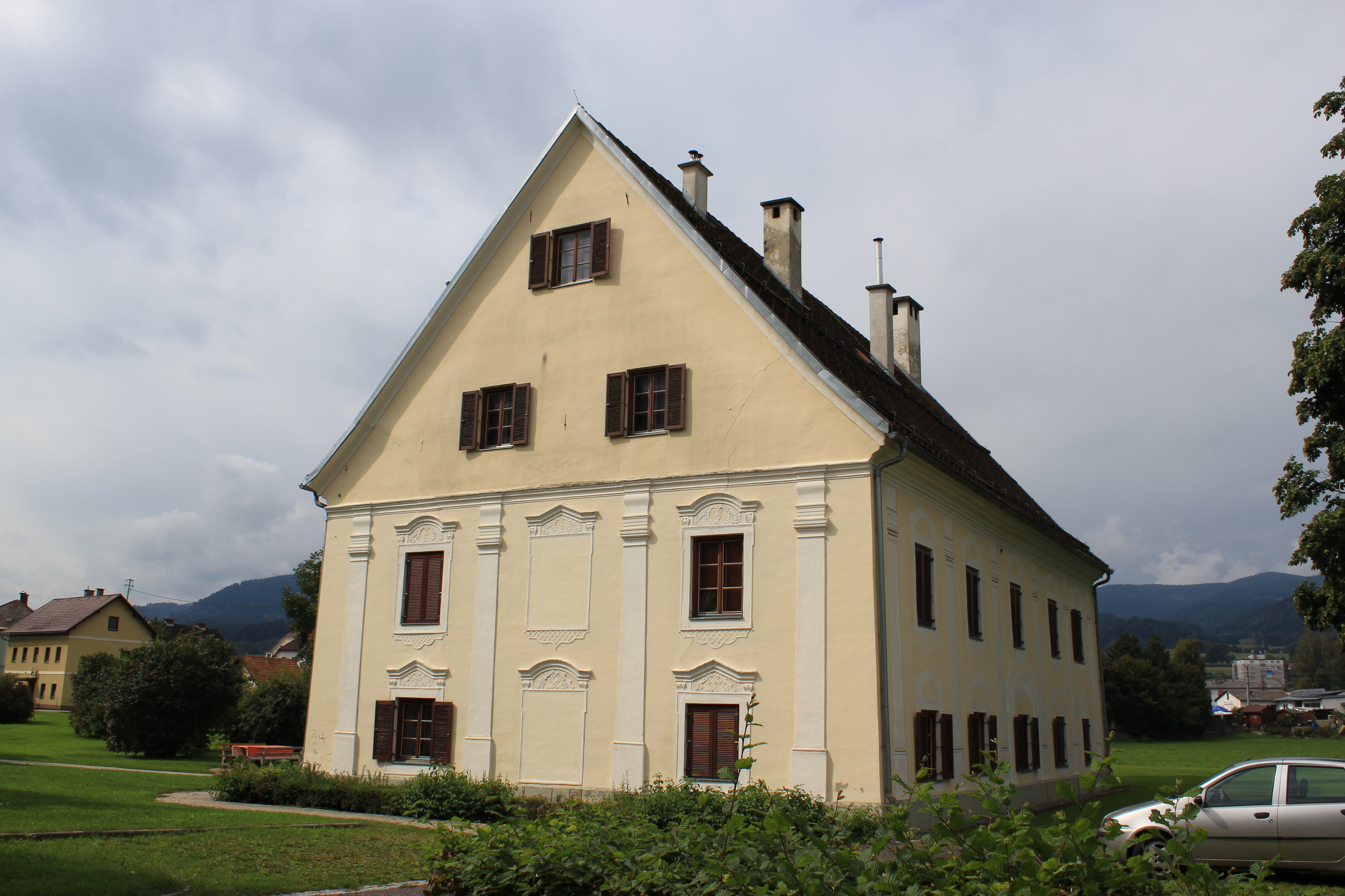 House Glangasse 71 in Sankt Veit an der Glan